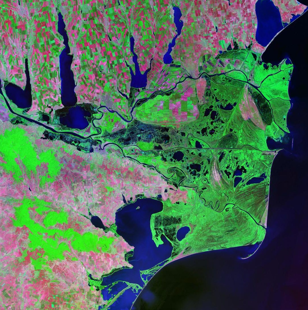 Danube Delta - Landsat satellite photo